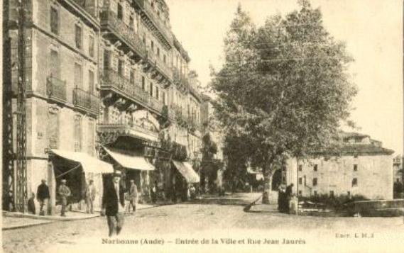 Postcard of France - Department of Aude (11) - Narbonne, Jean-Jaurès Street - unknown Year, approximately 1910.